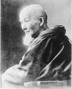 小野五平 Gohei Ono, the 12th Lifetime Shogi Meijin